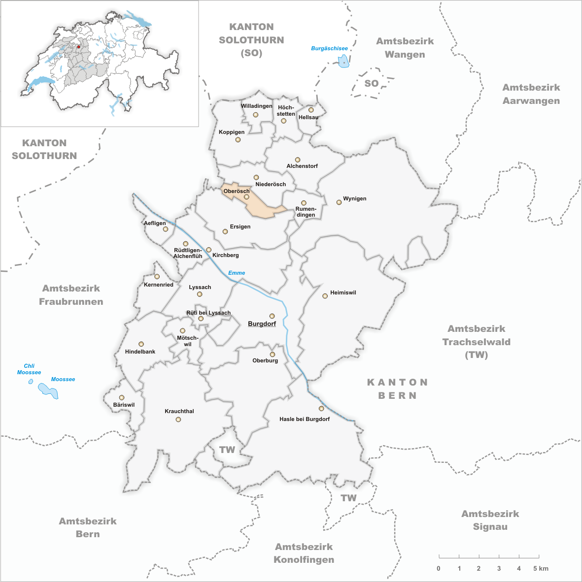 Municipality Oberösch